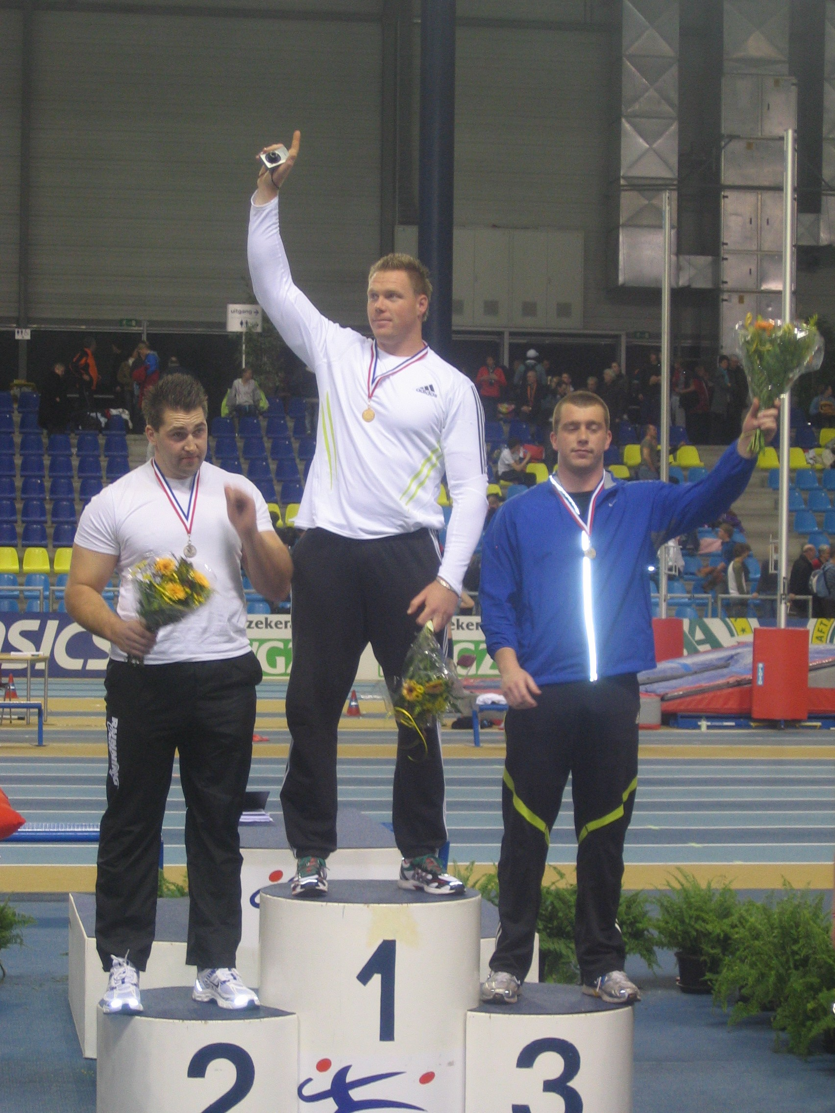 Rutger Smith at Dutch indoor championships '08, Gent